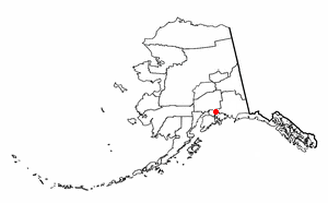 Adapted from Wikipedia's AK borough maps by Seth Ilys.